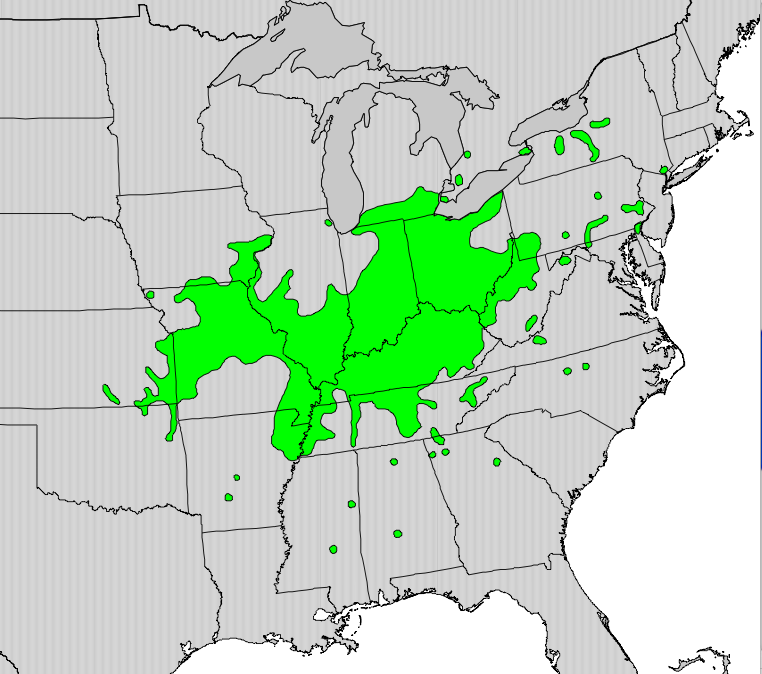 Range map of Carya laciniosa